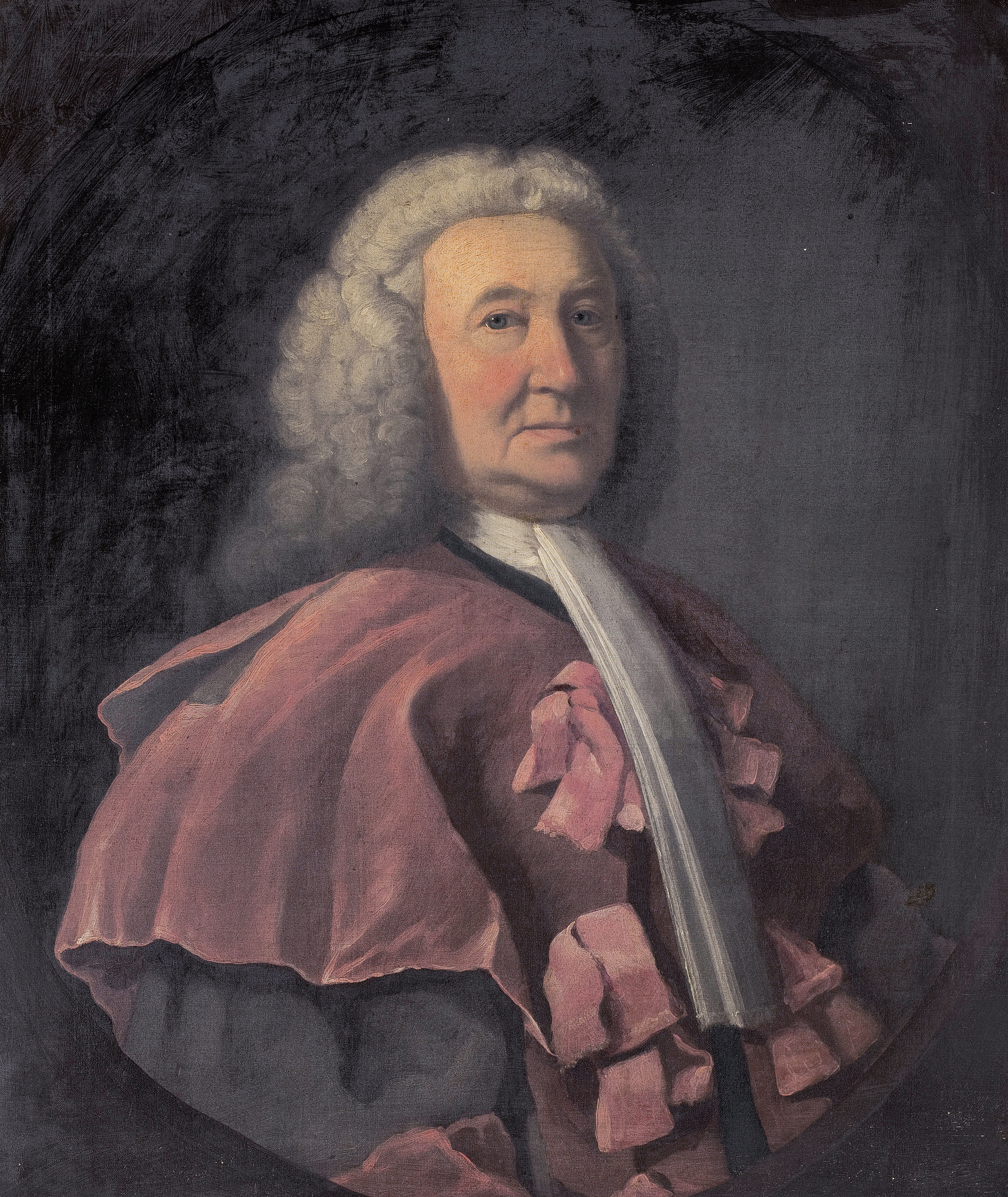 Andrew MacDougall (or MacDowell, McDouall), Lord Bankton (1685-1760) oil on canvas 76 x 63 cm signed verso: William Millar / 1758